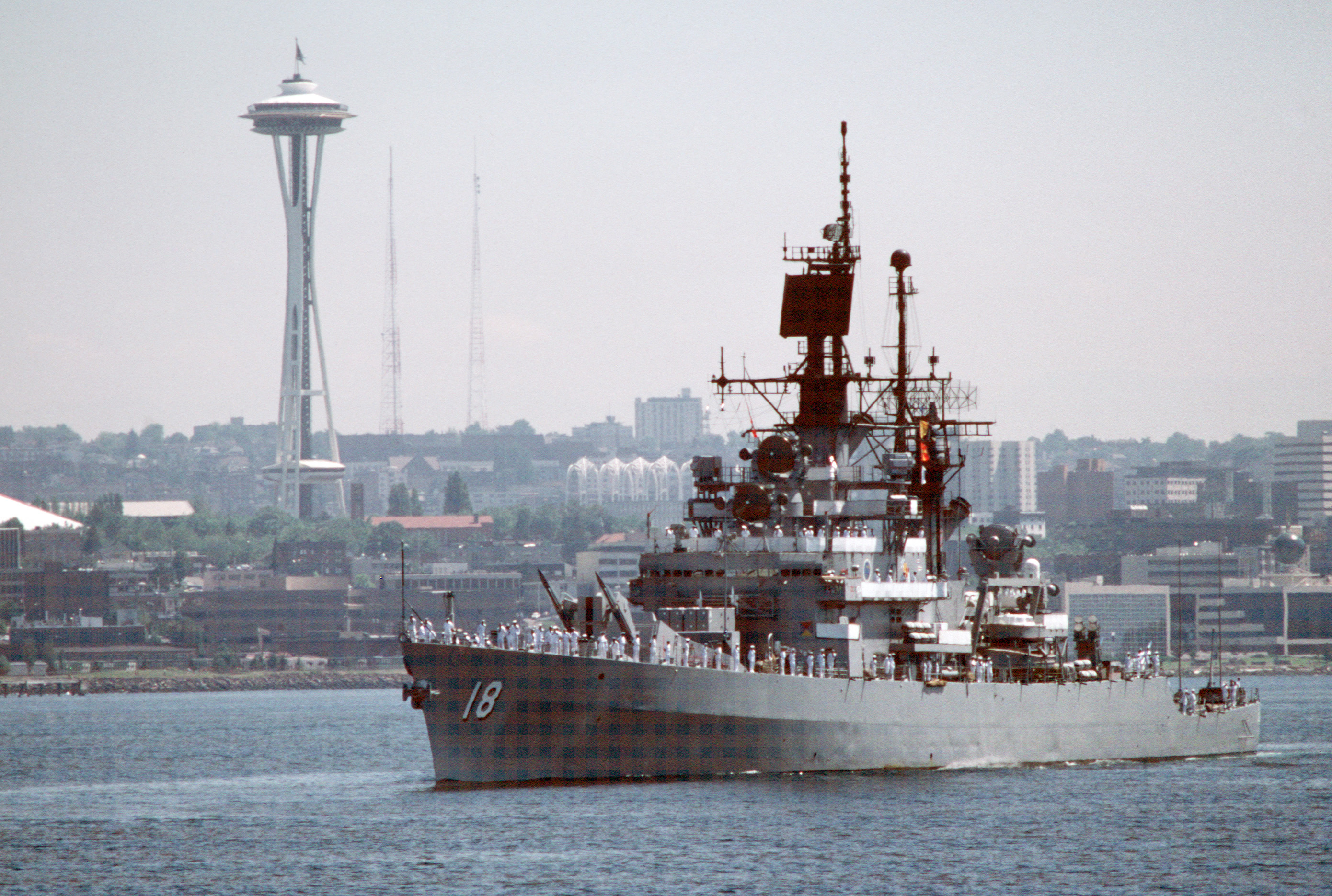 Crew members of the U.S. Navy guided missile cruiser USS Worden (CG-18) man the rails as the ship arrives in Seattle, Washington (USA), after completing a midshipmen's summer training cruise, 1 August 1986.